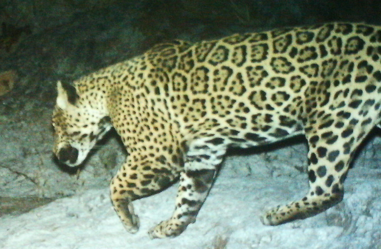 [UA Jaguar 2015 5-10.jpg] Male jaguar photographed by motion-detection wildlife cameras in the Santa Rita Mountains on May 10, 2015 as part of a U.S. Fish and Wildlife Service/Department of Homeland Security-funded jaguar survey conducted by University of Arizona. This is the same jaguar that has been repeatedly photographed in the Santa Rita Mountains. Photo Courtesy of UA/USFWS